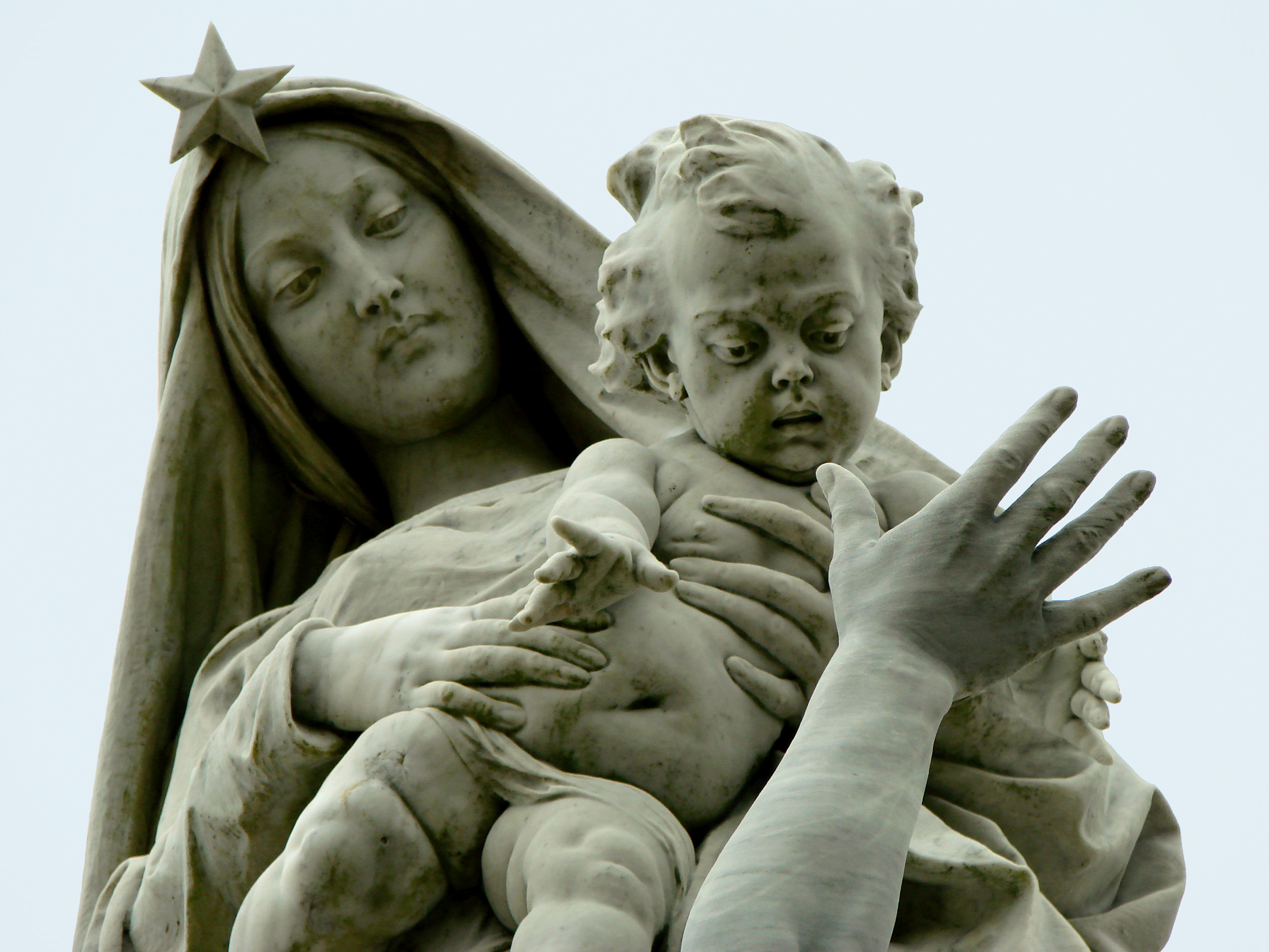 Our Lady of the shipwrecked men, by Cyprien (Cyprian) Godebski (1835-1909). Pointe du Raz, Finistère, Brittany, France.